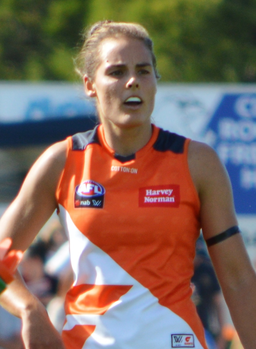 Maddy Boyd during the round 1, 2018 AFL Women's match between Melbourne and Greater Western Sydney